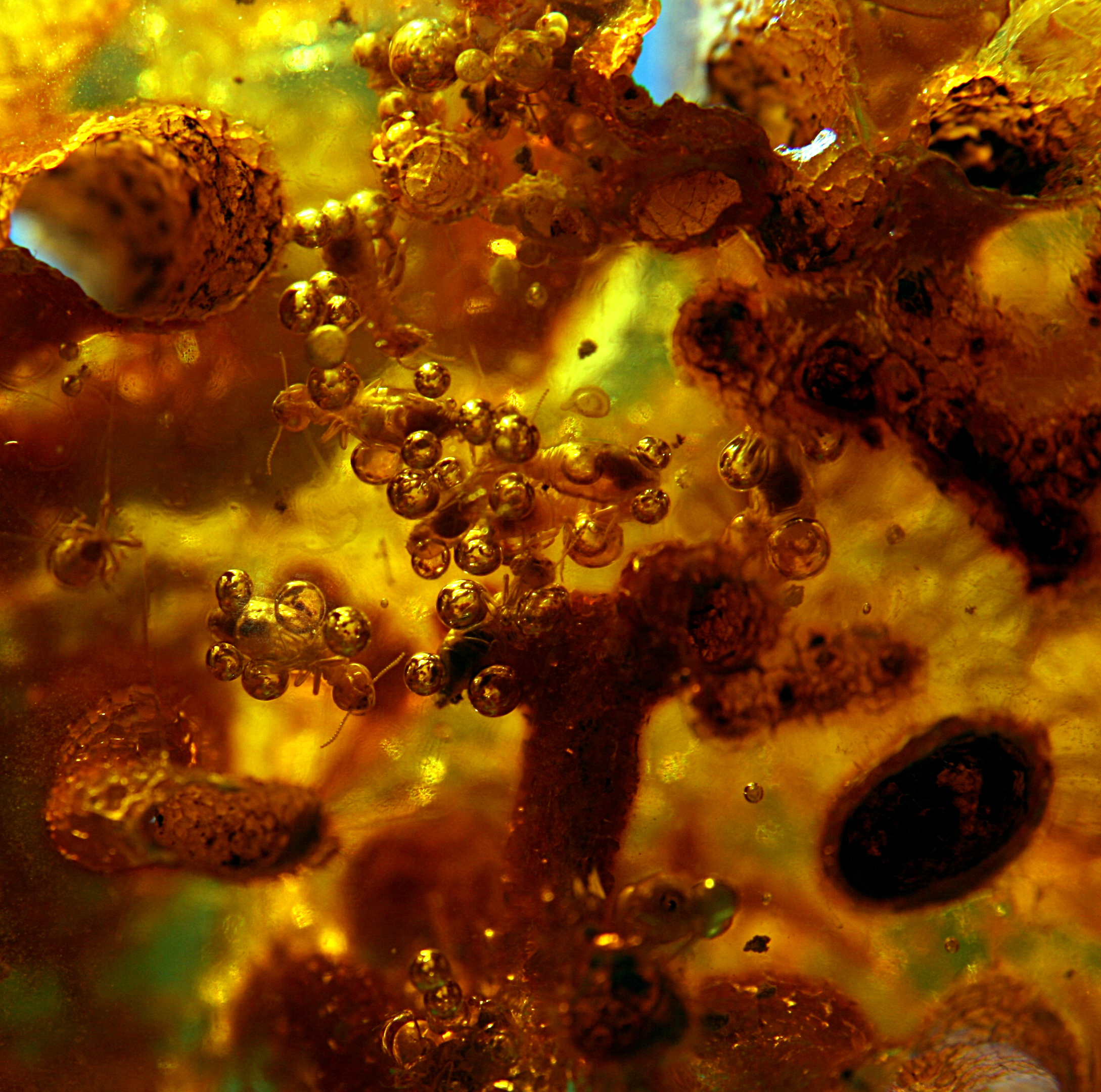 A copal with a few bugs inside. The piece of copal measures around four centimeters deep. The insects are trapped from 0.5 to 2 centimeters deep inside the copal. The bubbles around some of the insects indicate that they were alive and breathing when they were trapped inside.